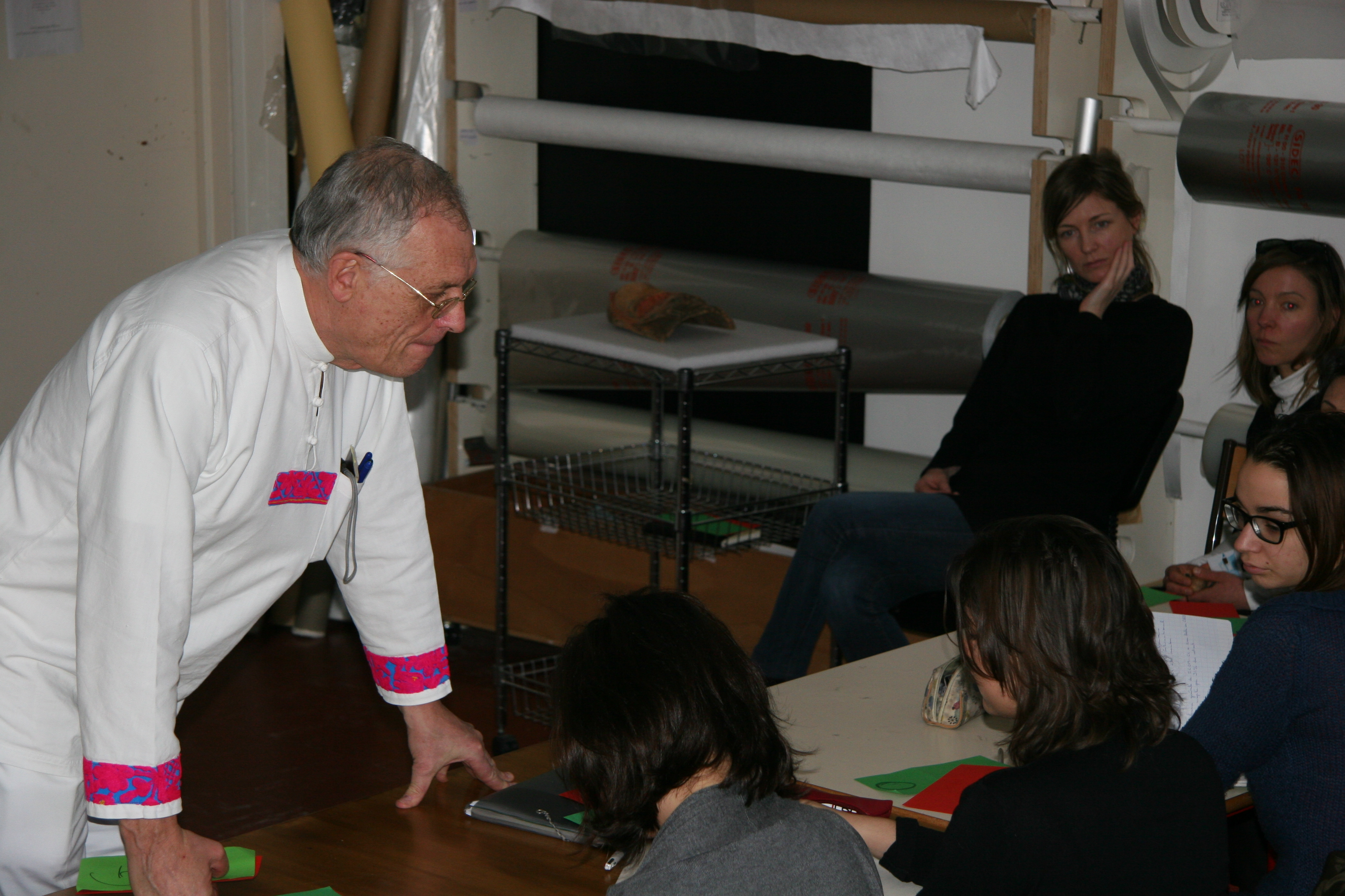 Intervention de Gaël de Guichen auprès des étudiants de l'ESAA, en janvier 2013